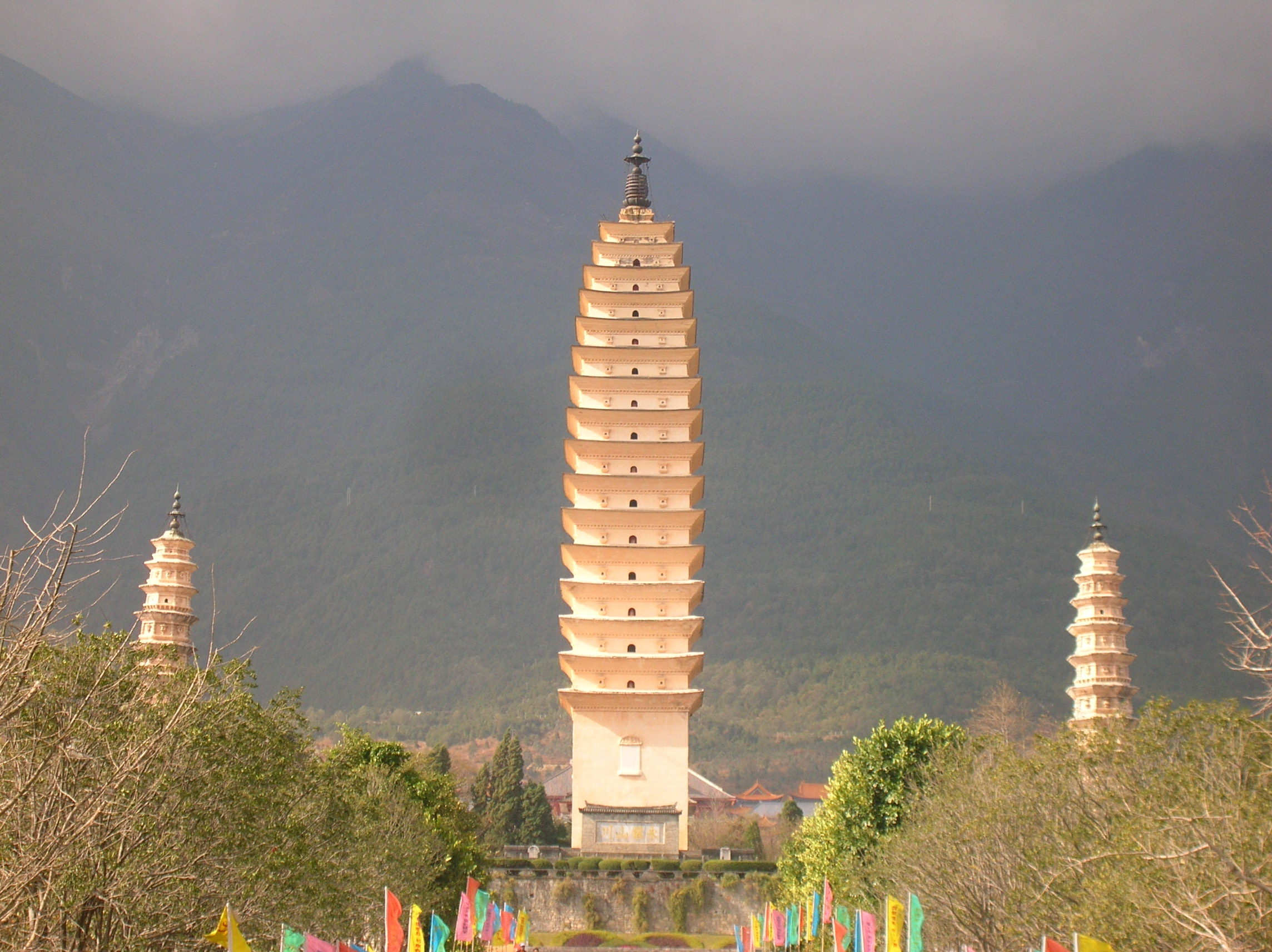 Three Pagodas front view; Yunnan province, China